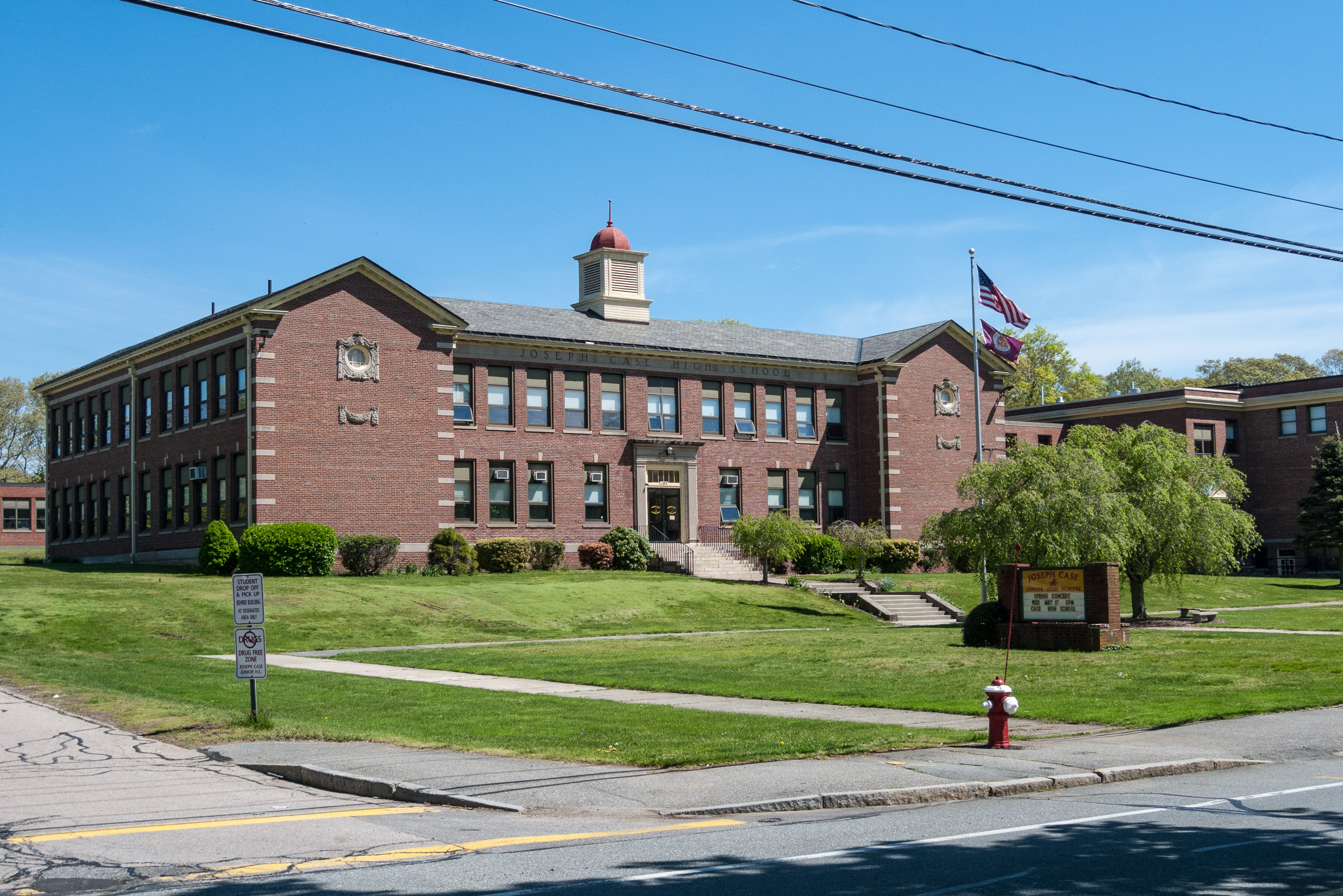 Joseph Case Junior High School, Swansea Massachusetts